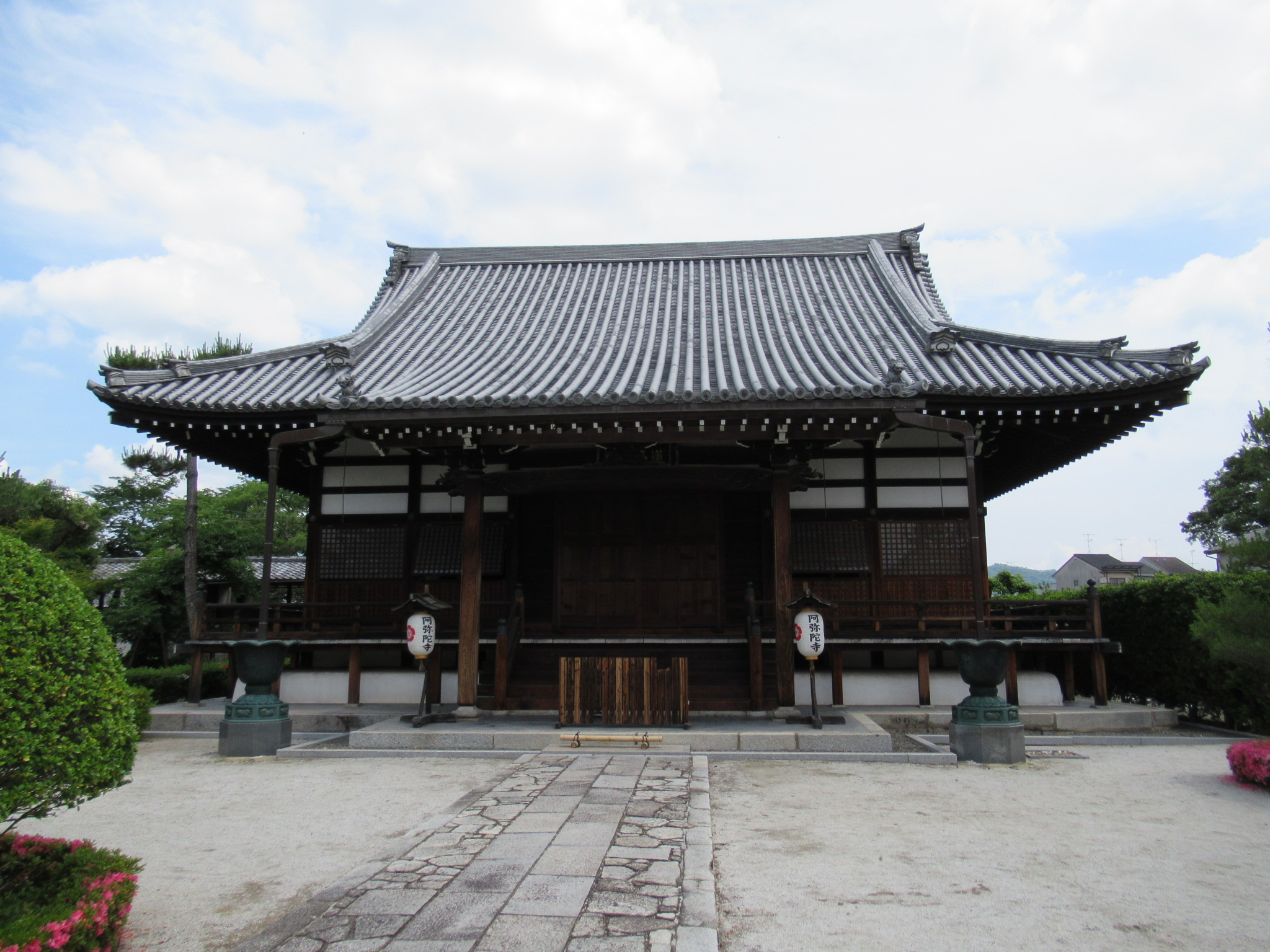 Amidaji, Kamigyo-ku, Kyoto.